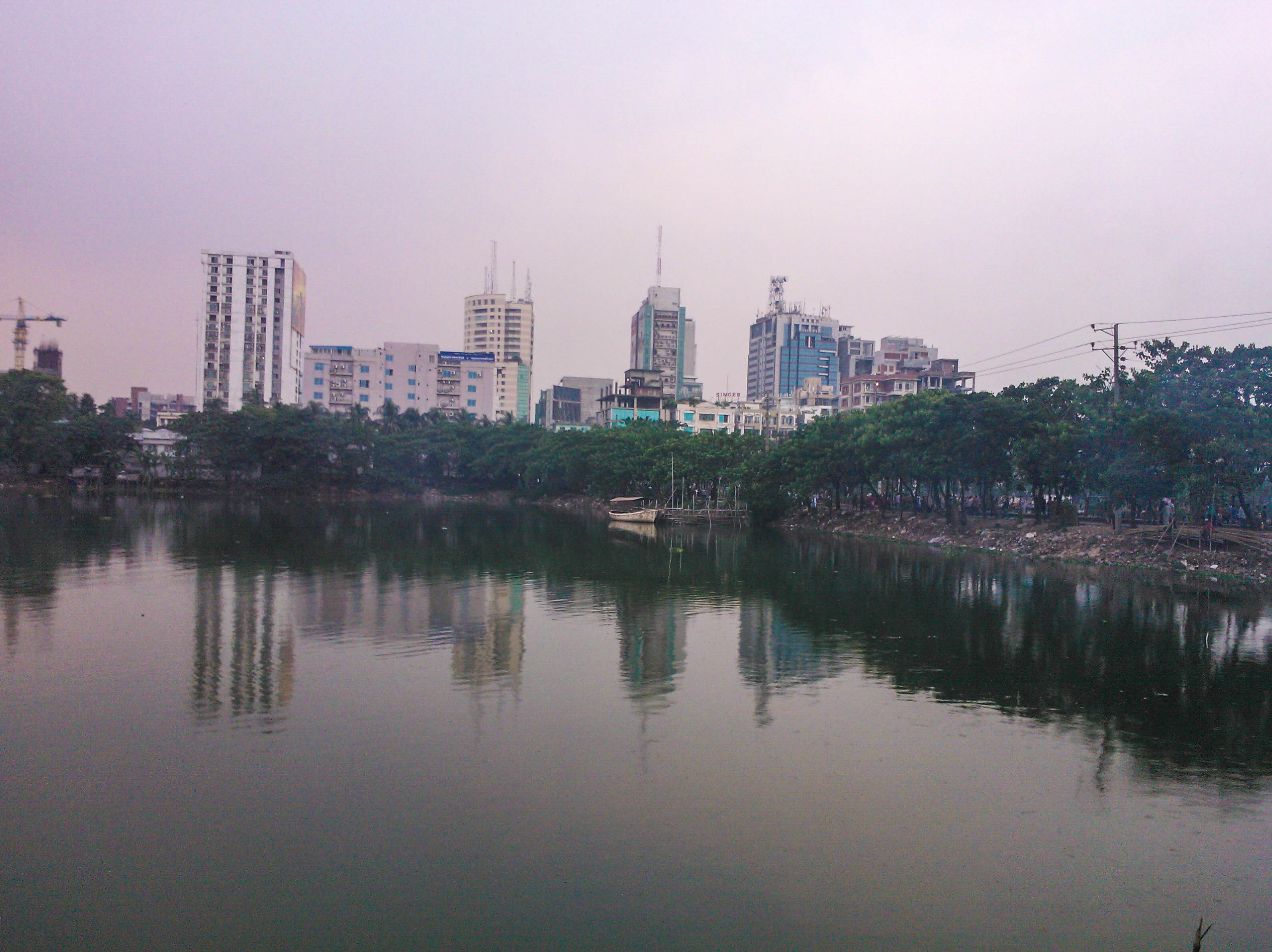 Gulshan Baridhara Lake is next to Gulshan and is located in Bangladesh. Gulshan Baridhara Lake has a length of 4.12 kilometres.